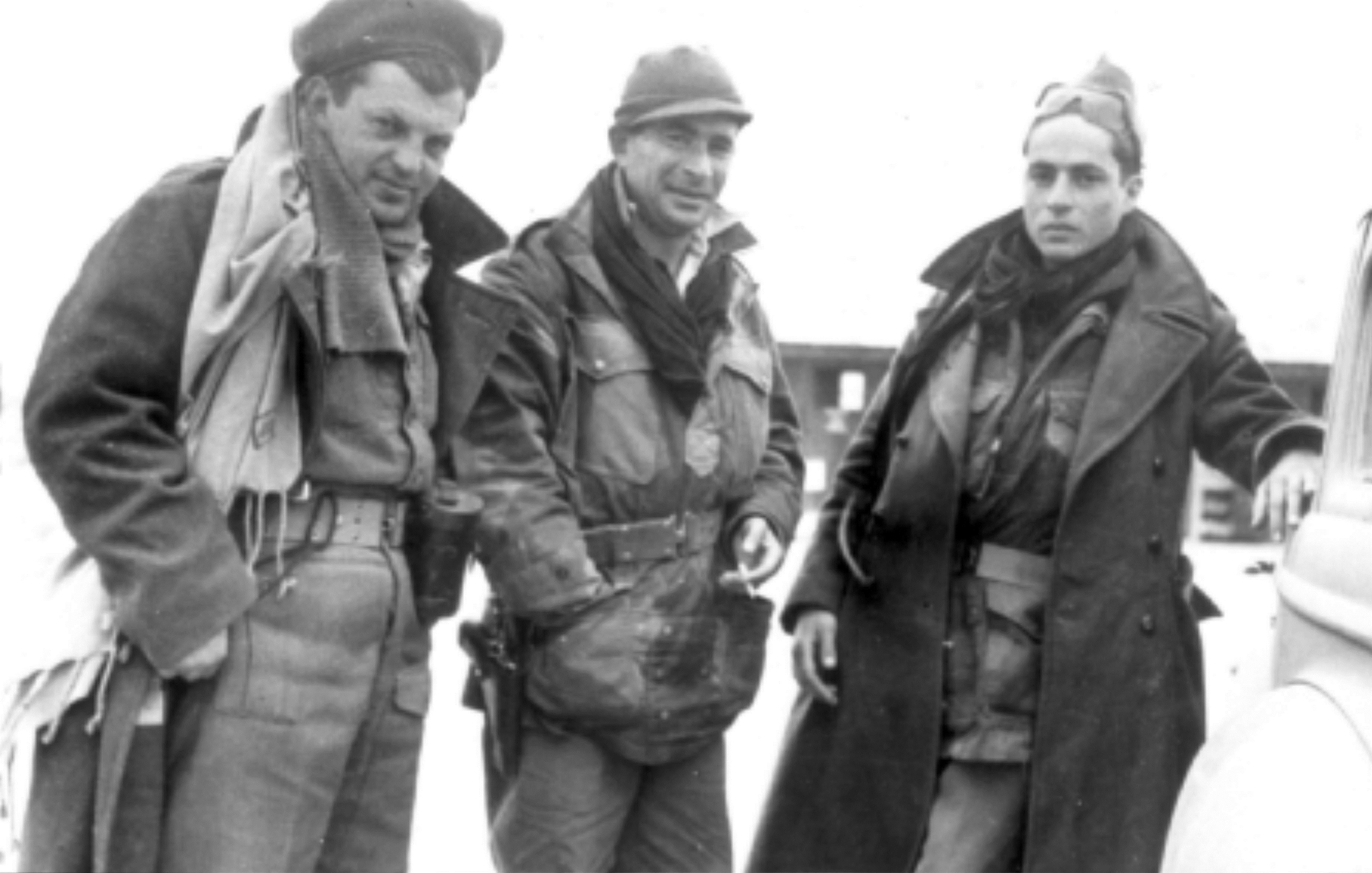 The Palmach, Israel Defense Forces